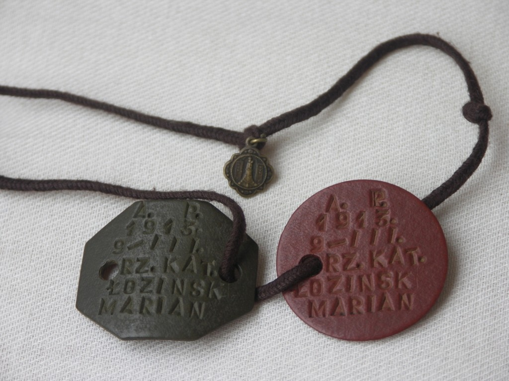 cpt. Marian Lozinski dog tag